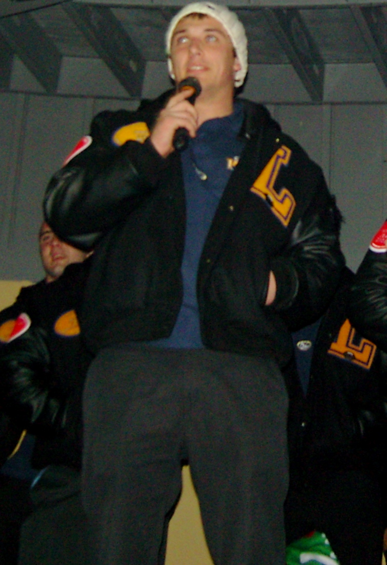 Lee Smith